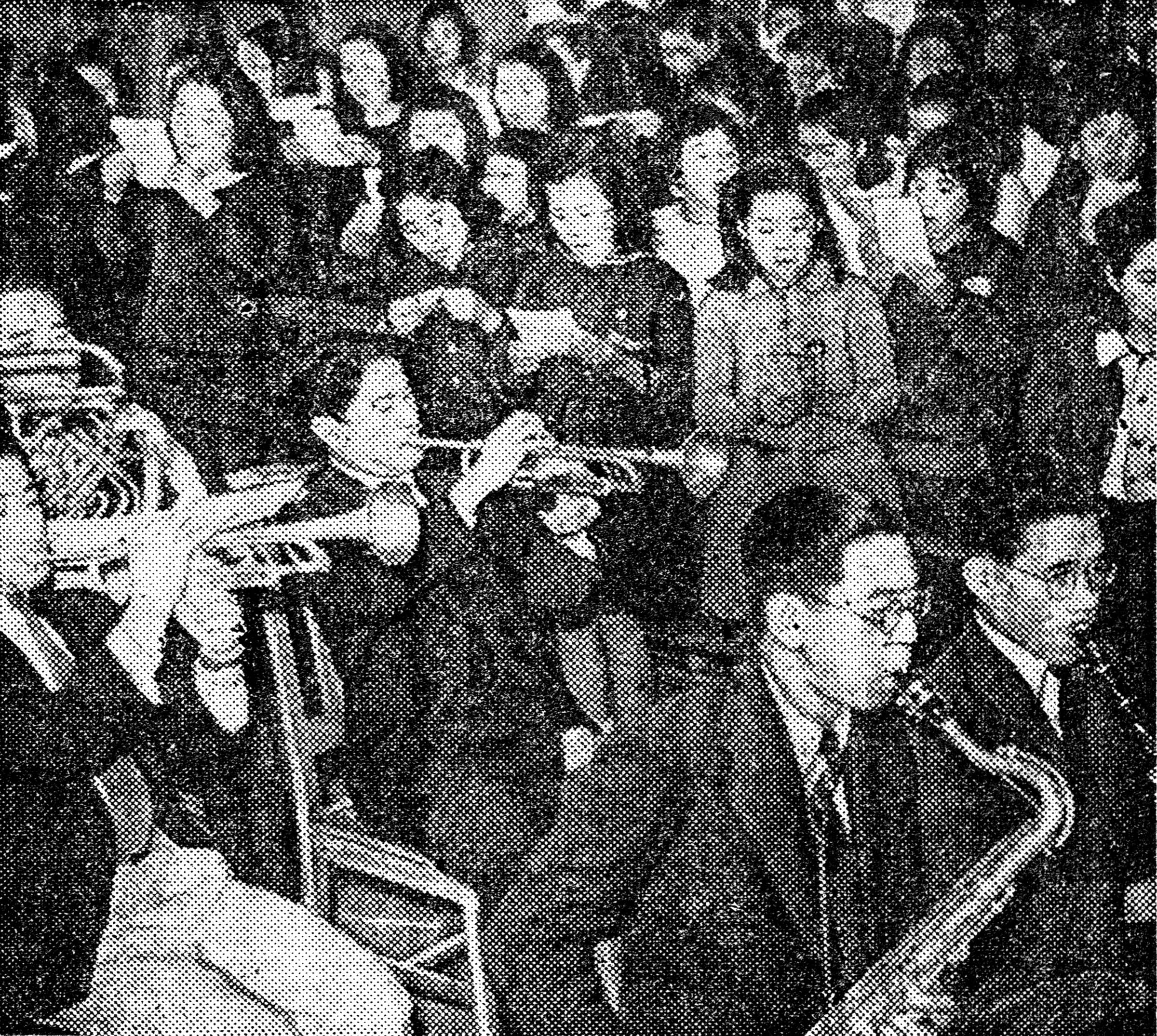 The presentation concert of "Hyogo Prefectural Anthem" , on May 8, 1947.